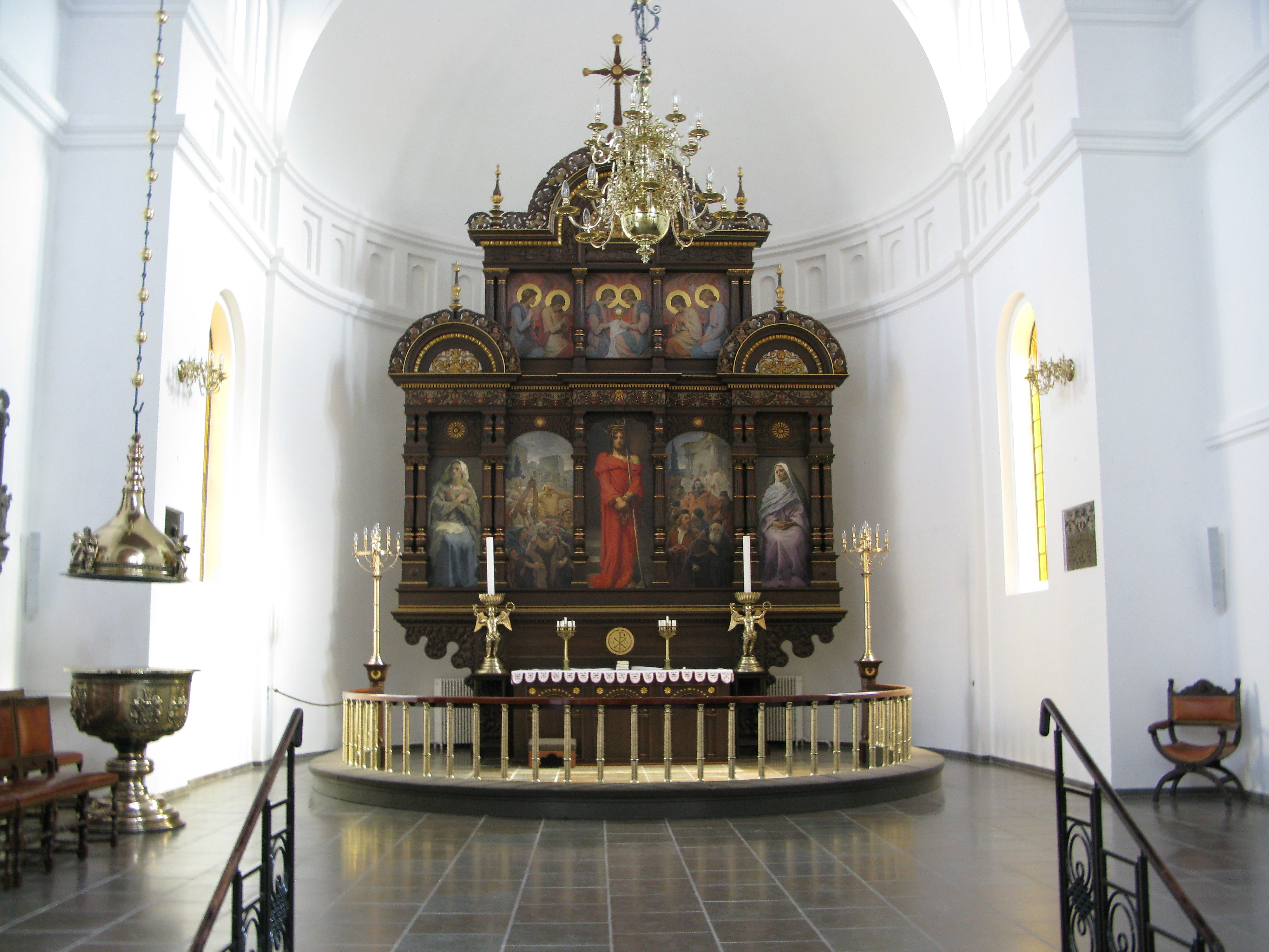 Church of our Lady Aalborg, Northern Denmark. Altar by Hermann Baagøe Storck and Frans Schwartz